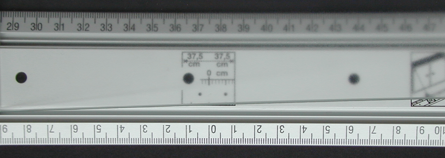 Illustration of blurring by a scattering layer. The scattering layer is close to the ruler on the left side where the blurring is minimum. The distance between the ruler surface and the scattering layer (frosted glass) is increasing from left to right and so does the blur.